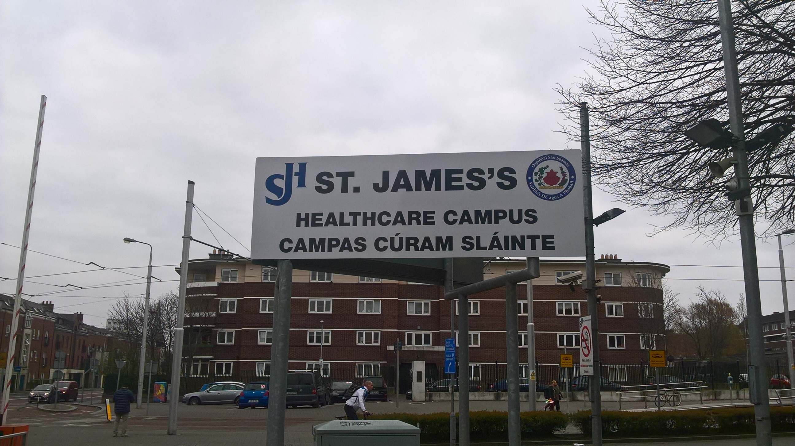 Welcome sign to St. James's Hospital, Dublin (2019).